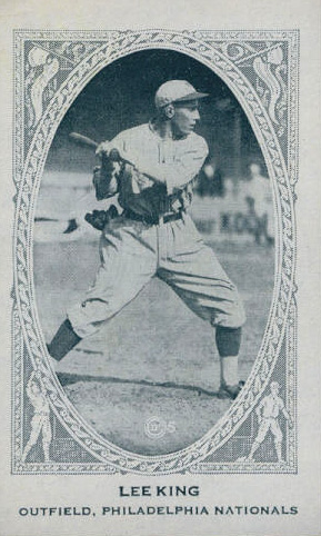 Depicted person: Lee King – American baseball player